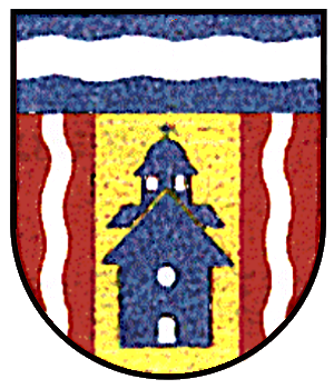 Coat of arms of Langenscheid